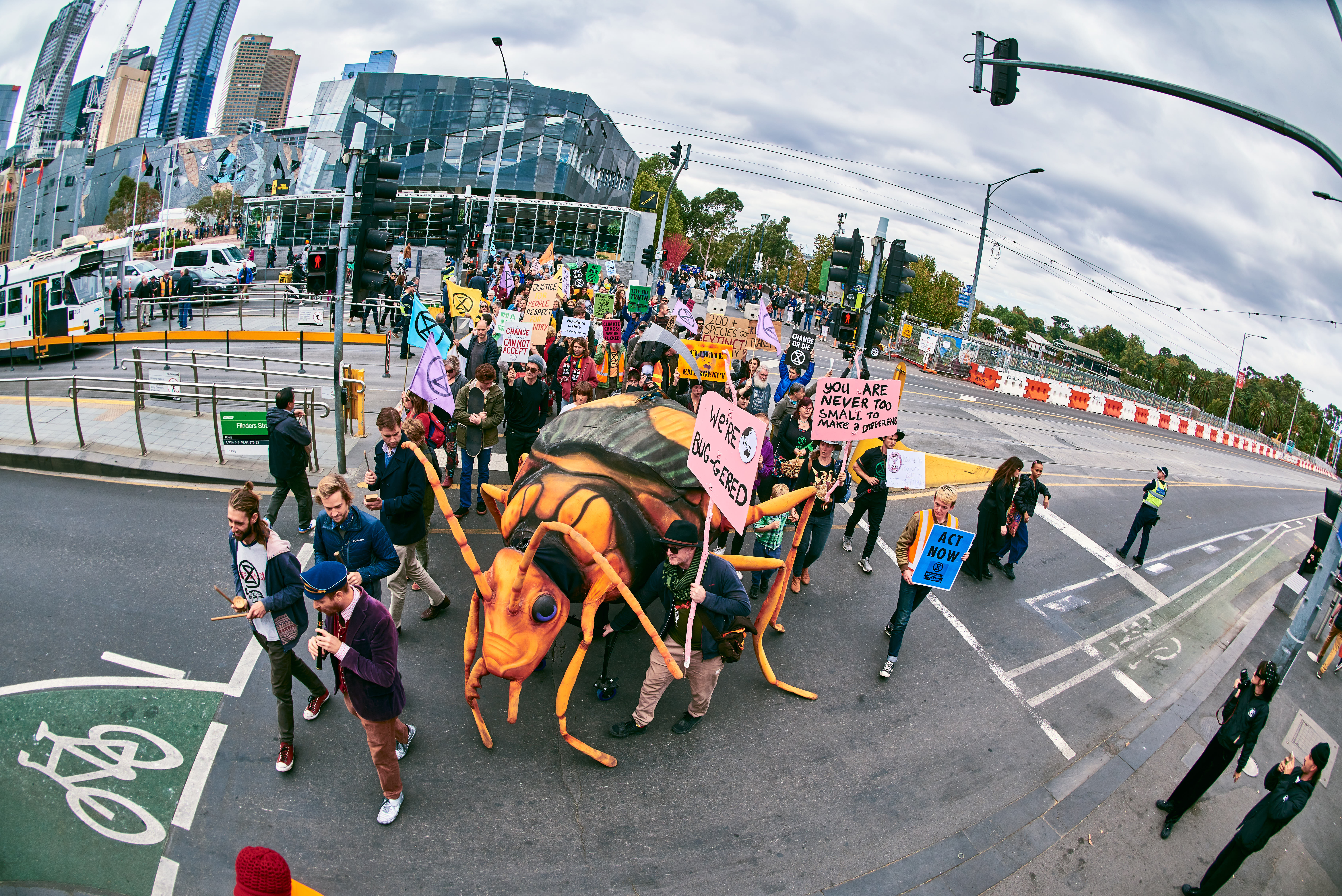 JMP_9073 XR Melbourne